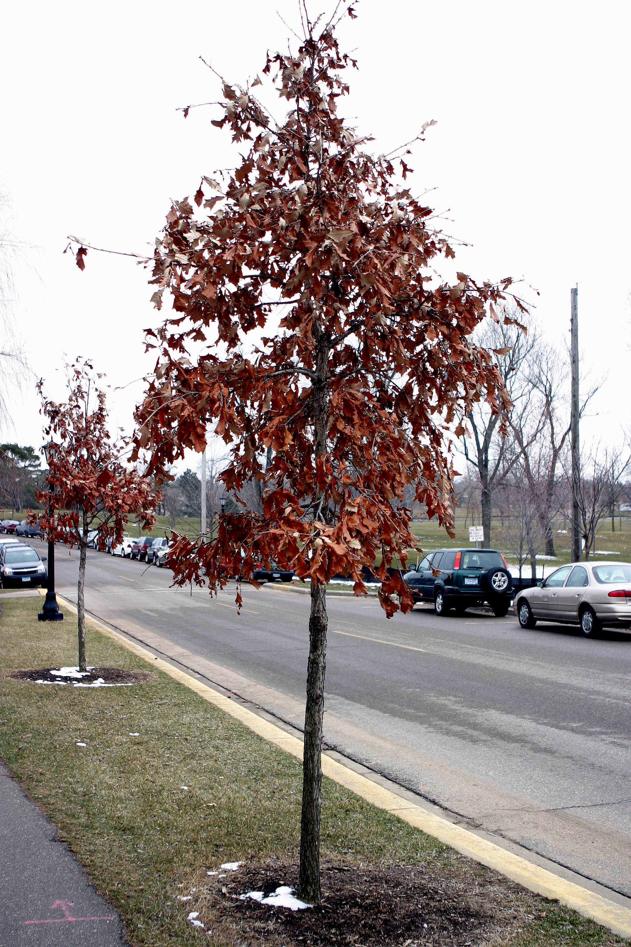 Self made picture of oaks with winter leaves. Taken March 2008.